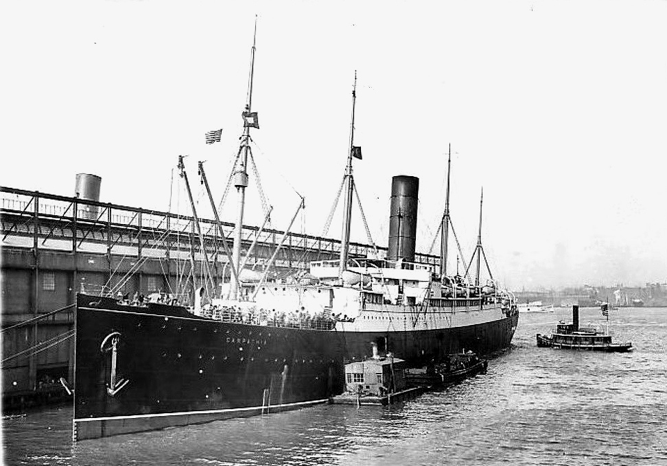 Photo of Carpathia docked at Pier 54 in New York City in 1912 following the rescue of the survivors of the Titanic. At the time this photo was taken, all third class passengers were still aboard Carpathia. Anyone with a first or second class ticket was able to leave a ship at the line's docks in New York; those who had third class or steerage tickets and were not US citizens were taken to Ellis Island after the other passengers left the ship at the pier.